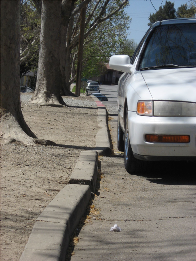 Photo taken in April 2009, showing creep along the Calaveras Fault in downtown Hollister. Up to 9 inches of left lateral offset from the curb can be seen.